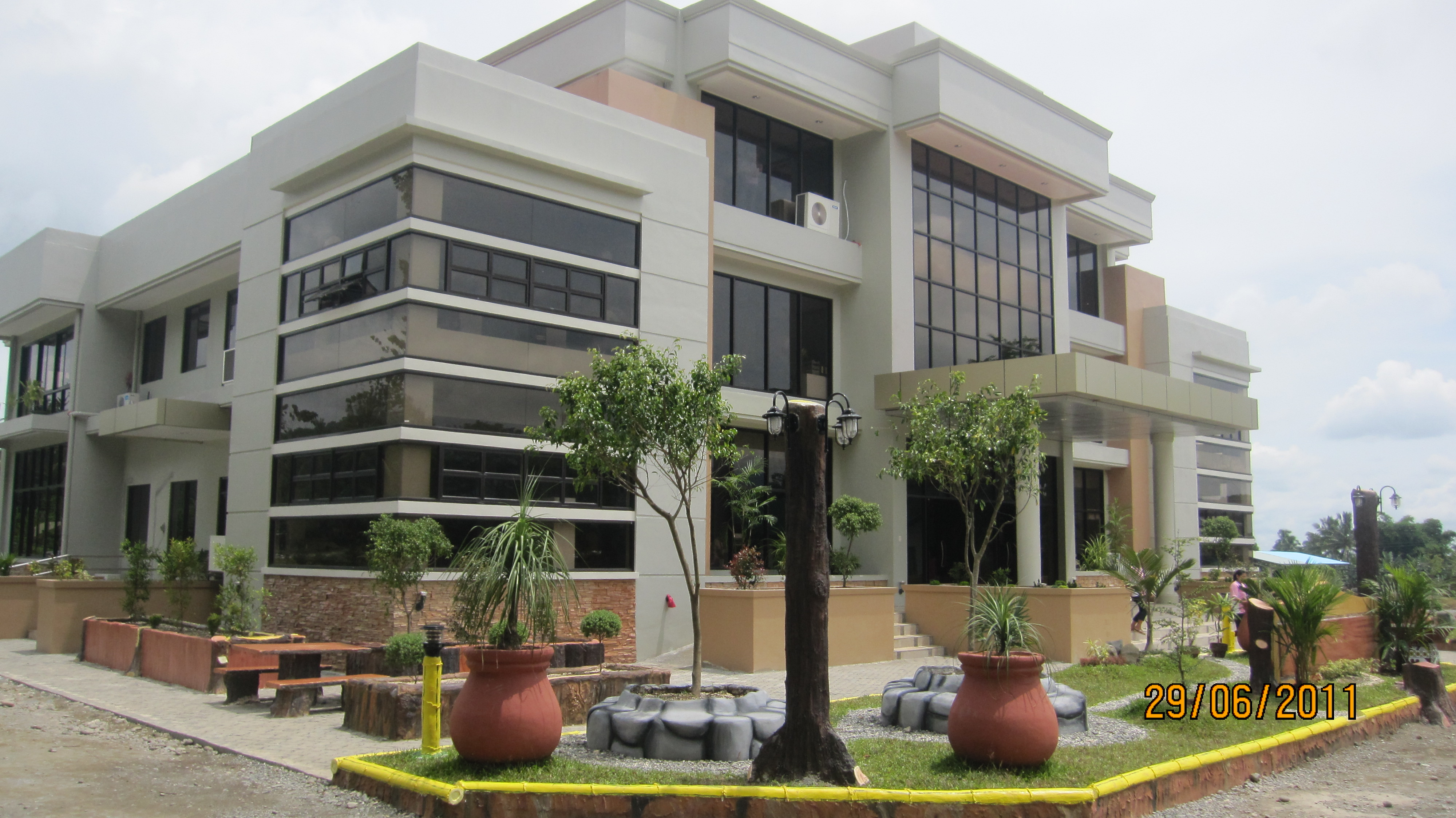 New Bataan Municipal Center